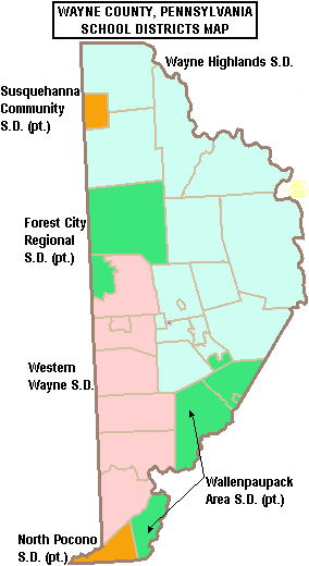 Map of Wayne County, Pennsylvania, United States Public School Districts